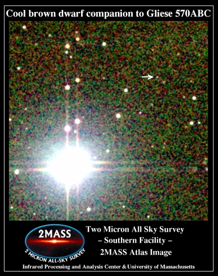 The ternary star system Gliese 570 as seen by 2MASS. The T-type methane brown dwarf Gliese 570D is indicated with an arrow.